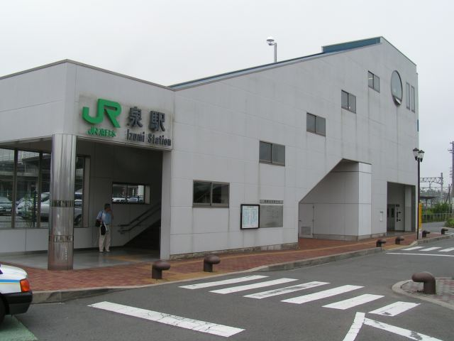 Izumi Station north exit, Iwaki, Fukushima, Japan in August 2005